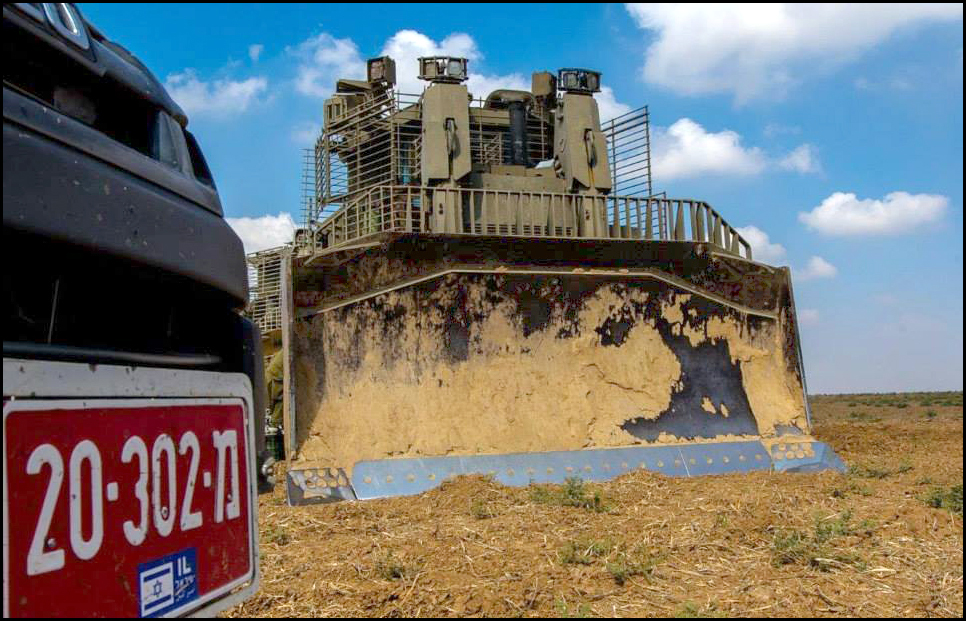 IDF Caterpillar D9 armored bulldozer parking outside the Gaza Strip during Operation Protective Edge